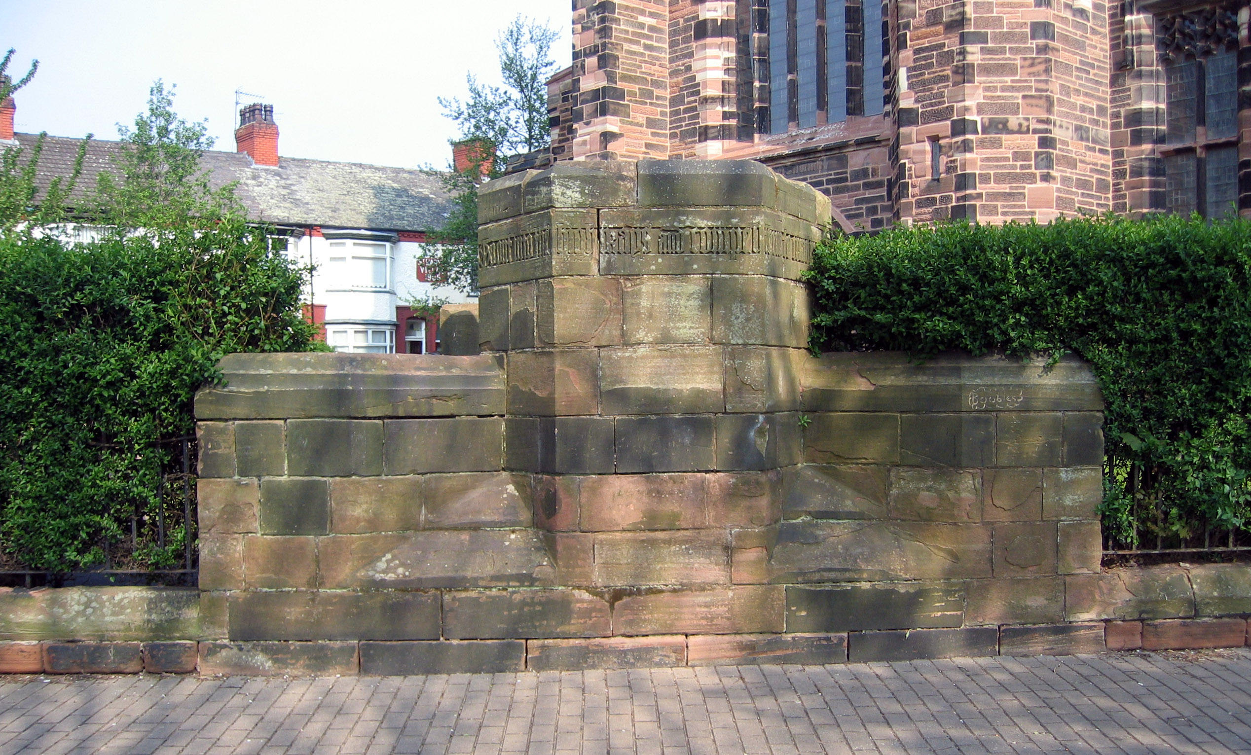 Wayside pulpit to the church of St Mary's, West Bank, Widnes.